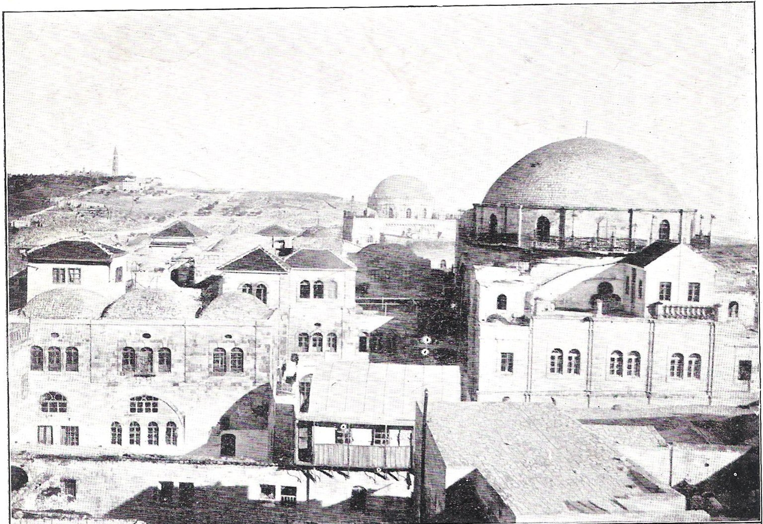 Hurva Synagogue — Jerusalem, Ottoman Palestine, Ottoman Empire.